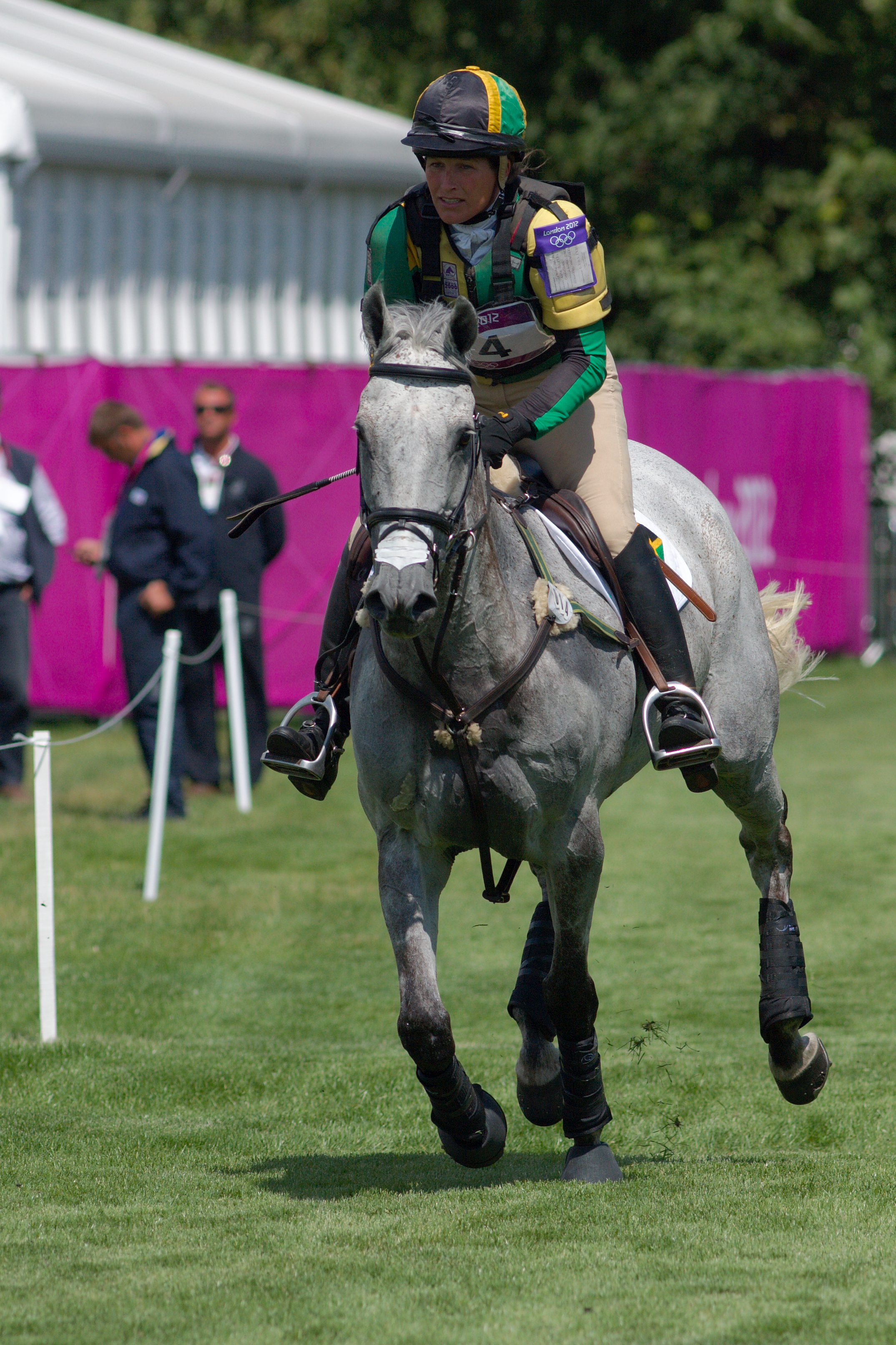 Samantha Albert and Carraig Dubh, competing for JAM, during the cross-country phase of the Eventing during the 2012 Olympic Games in Greenwich Park, London.